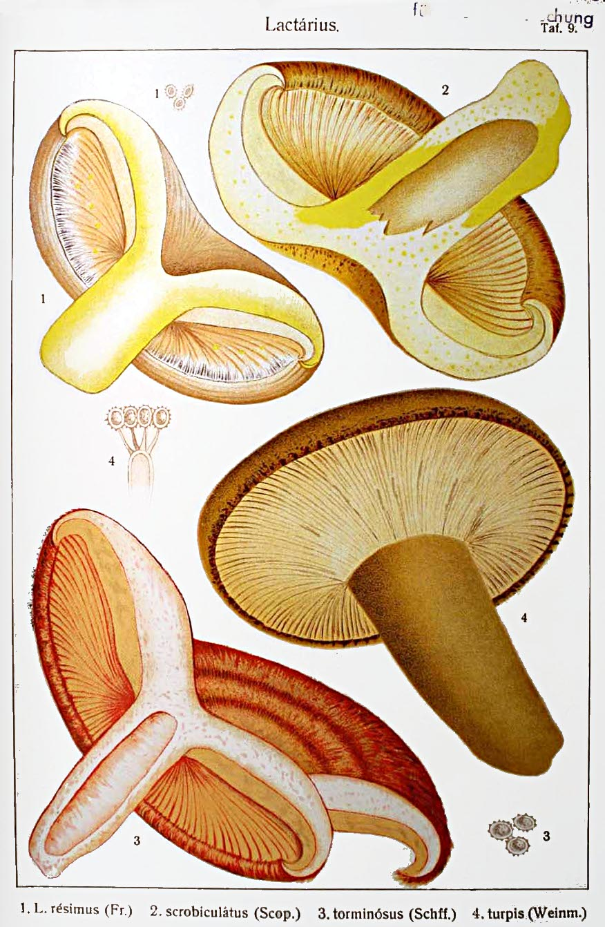 Adalbert Ricken: "Die Blätterpilze (Agaricaceae)" "Deutschlands und der angrenzenden Länder, besonders Oesterreichs und der Schweiz." (The Agarics (Agaricaceae) Of Germany and the neighboring countries, especially Austria and Switzerland.) neighboring countries